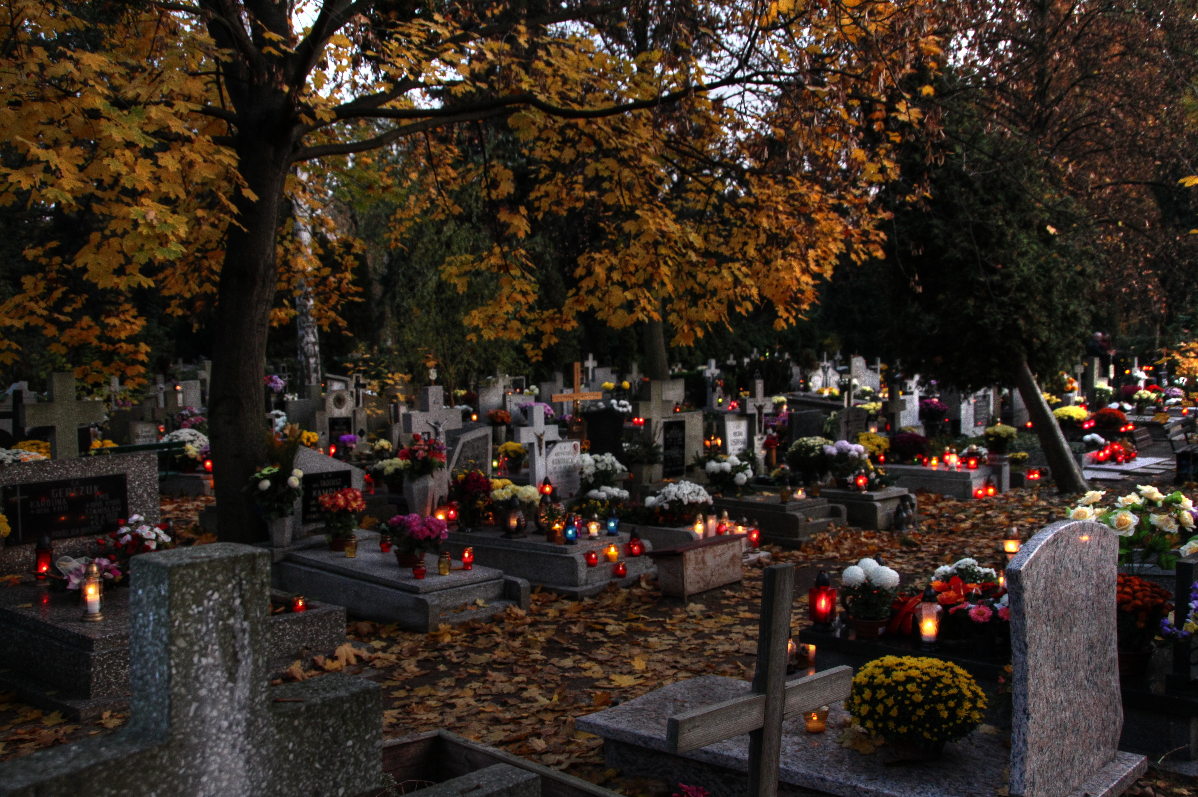 The Catholic church celebrates Zaduszki ("All Souls Day") one day after the All Saints Day... Photo from the Polish cemetery of Osobowice in Wroclaw... Zaduszki